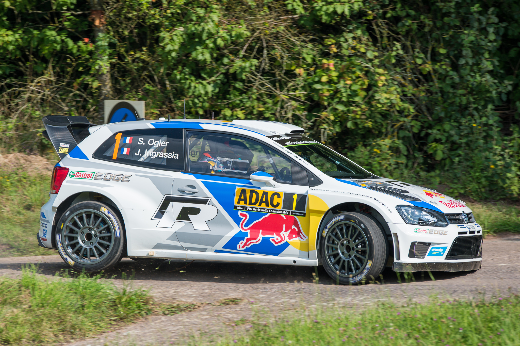 ADAC Rallye Deutschland 2014,FIA,FIA World Rally Championship,Julien Ingrassia,Motorsport,Rally,Rallye,Sebastien Ogier,Shakedown,VW Polo WRC,Volkswagen Motorsport,Volkswagen Polo WRC,WRC